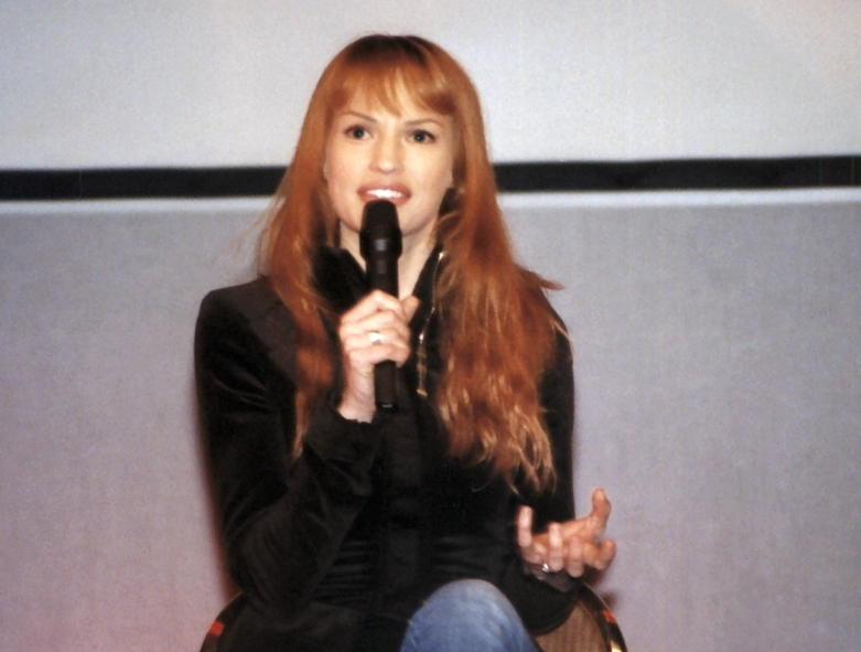 The American actress Jolene Blalock at the science fiction convention FedCon XIV in Bonn, Germany, 2005.